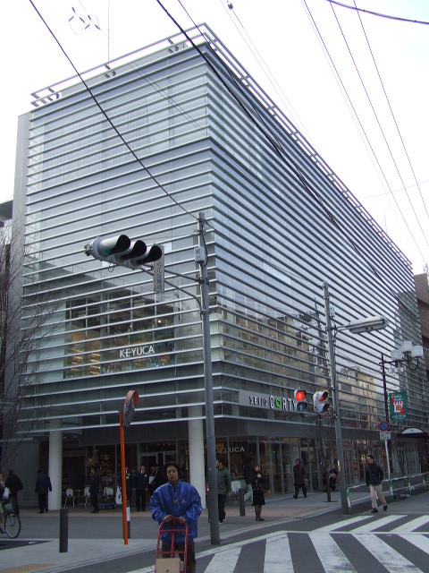 Building of "Seijyo Corty",Setagaya,Tokyo,Japan